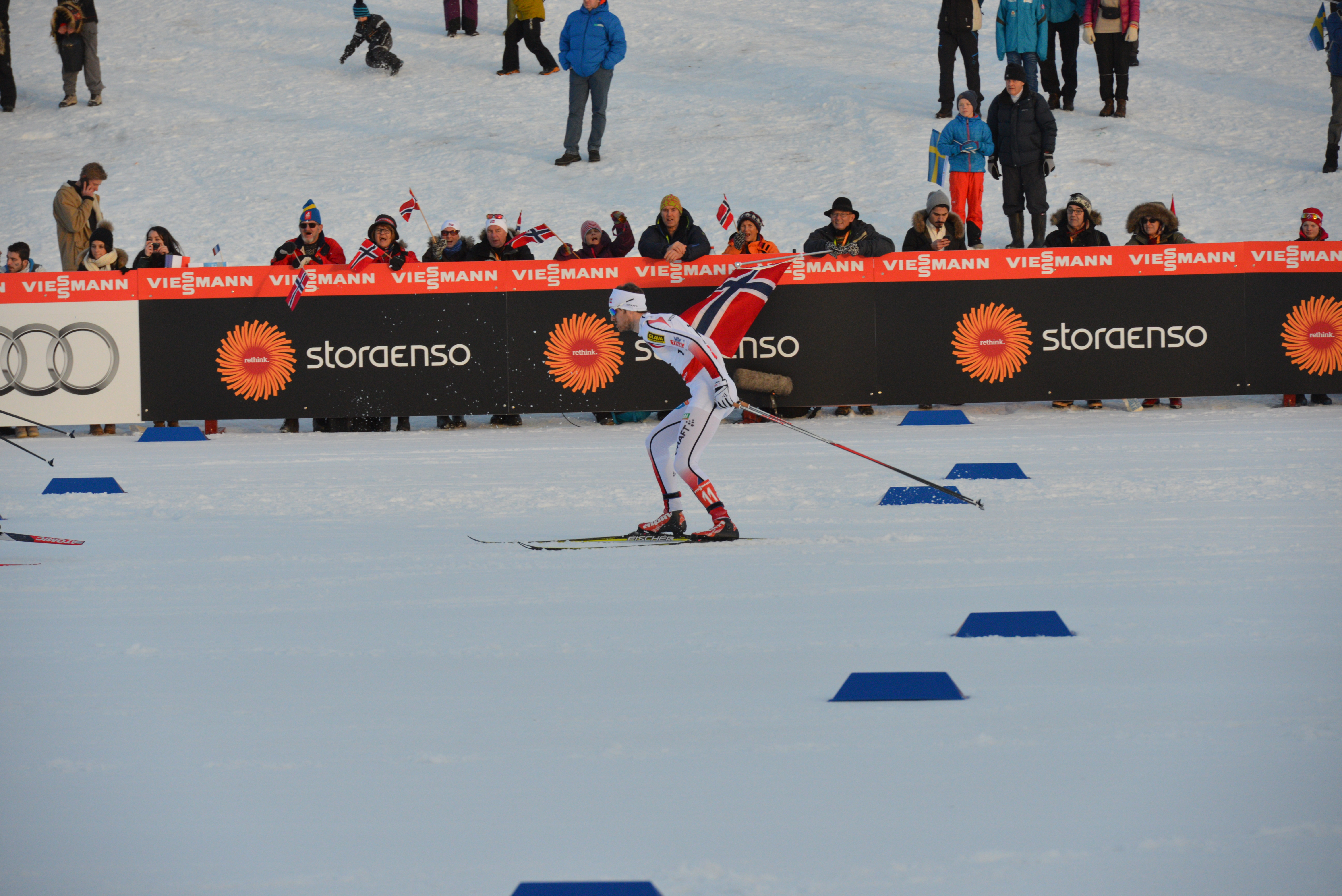 Nordic combined 10 km Gundersen individual competition at the FIS Nordic World Ski Championships 2015 in Falun